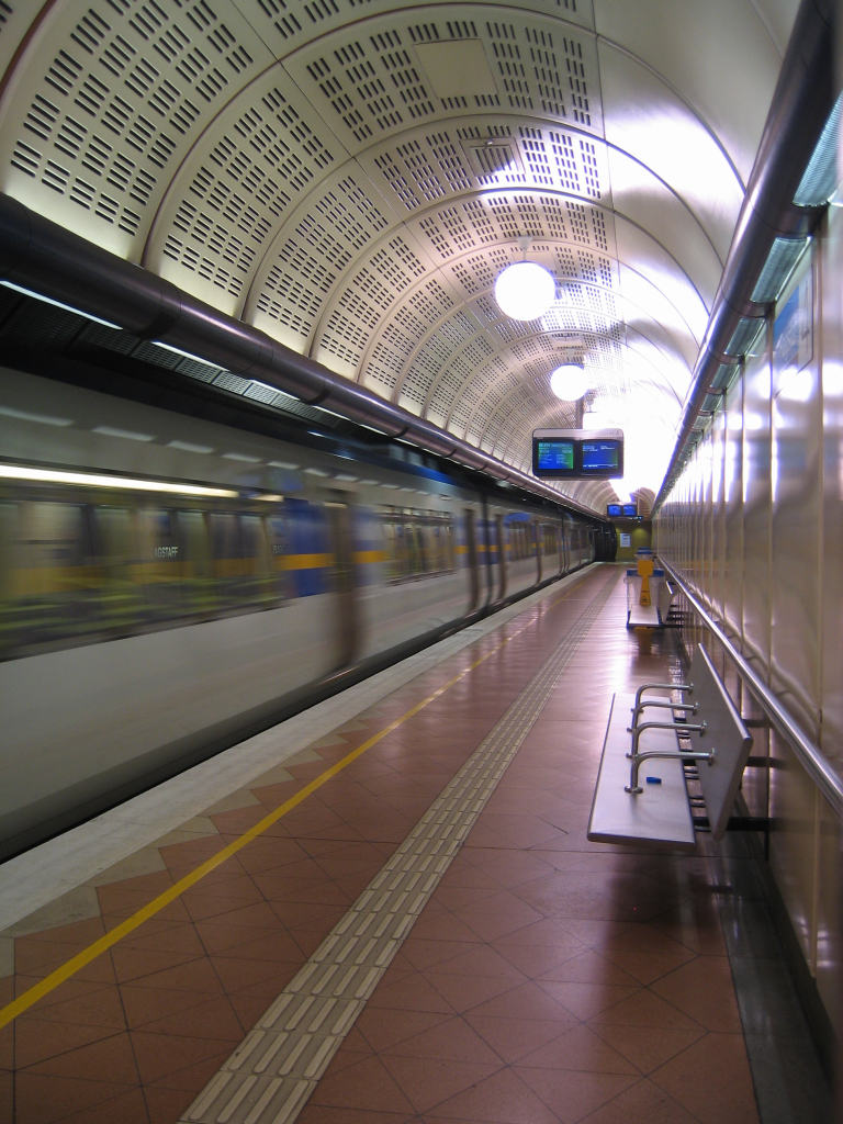 XTrapolis train at Flagstaff Station - Melbourne, Victoria, Australia